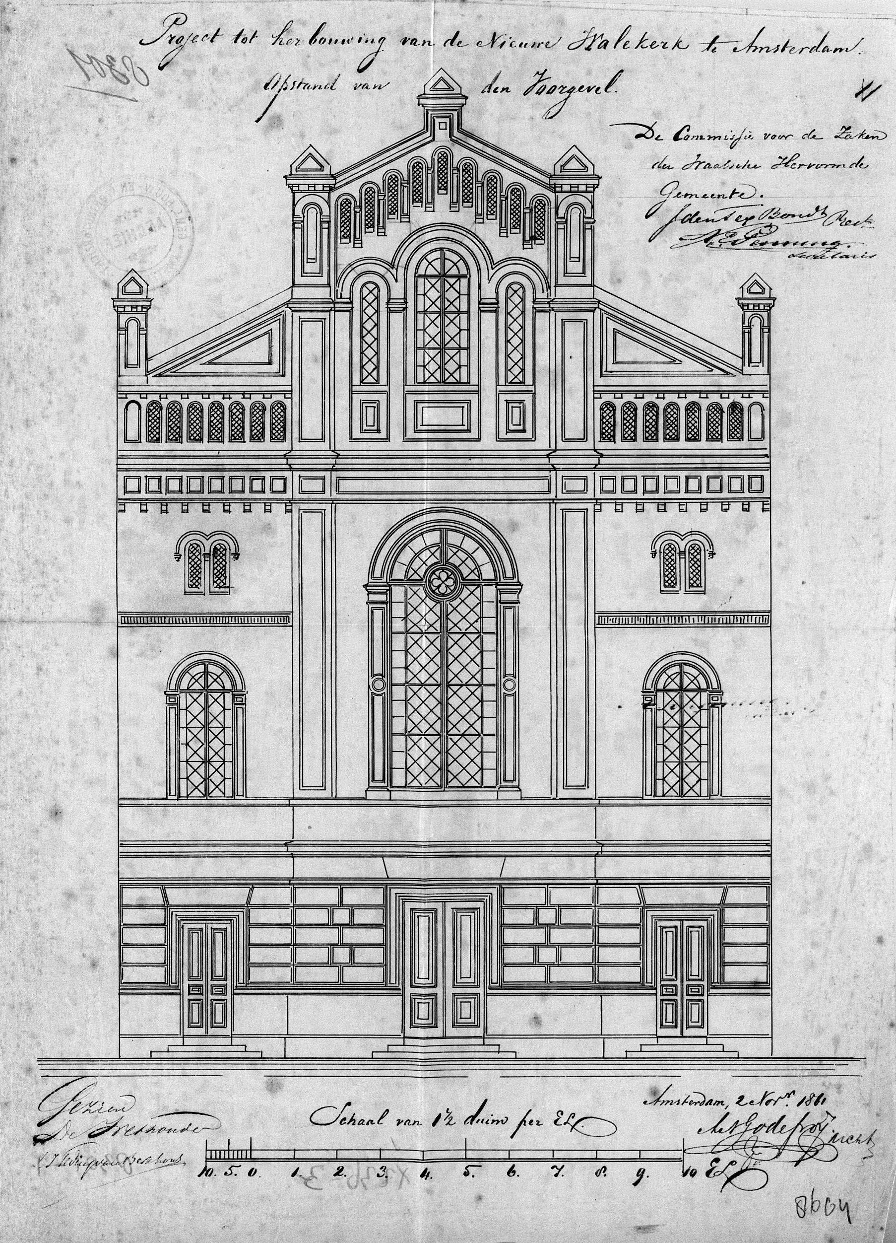 Nieuwe Waalse Kerk (New Walloon Church), Keizersgracht 676, Amsterdam. 1861.